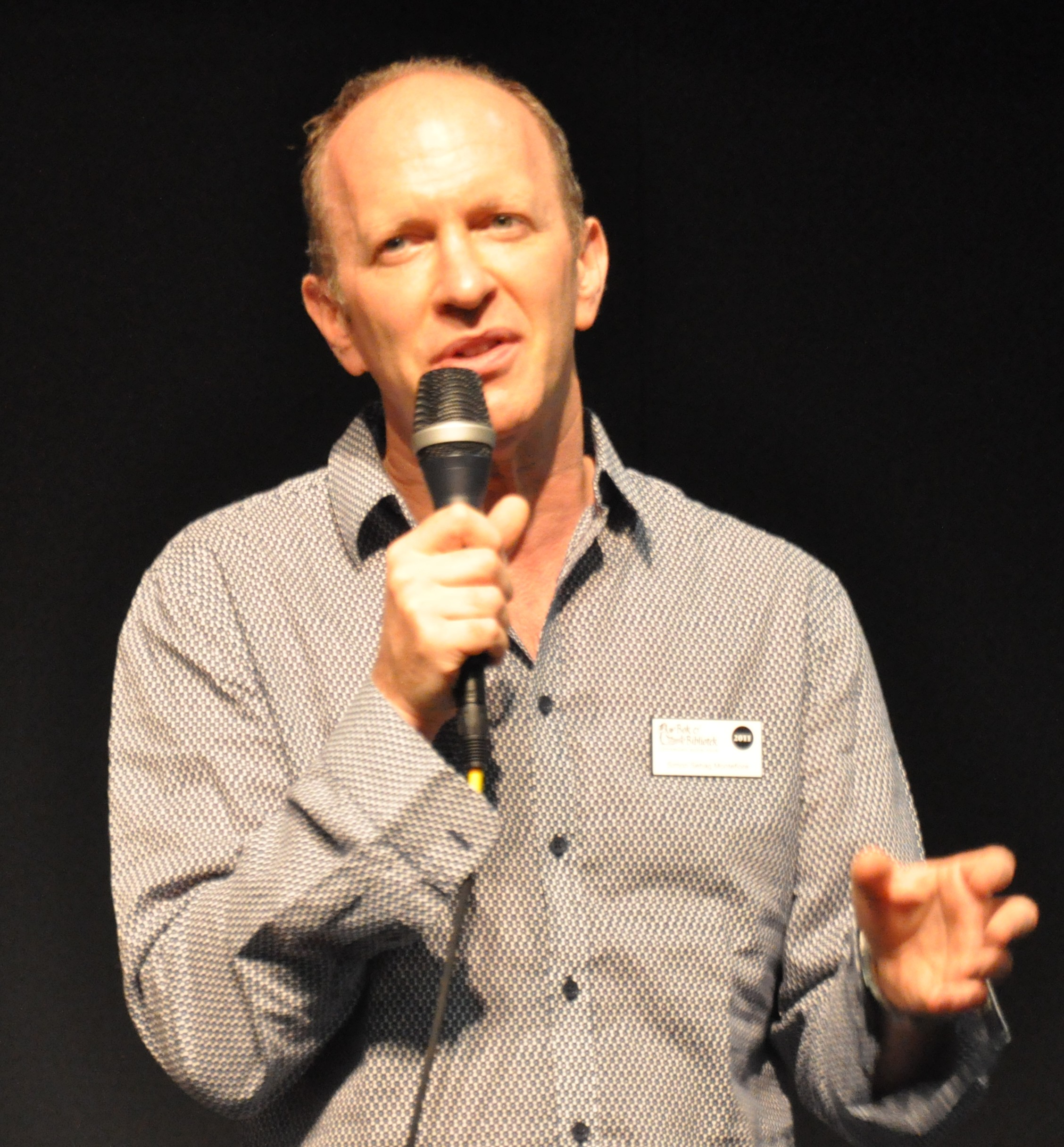 Simon Sebag Montefiore på Bokmässan i Göteborg 2011